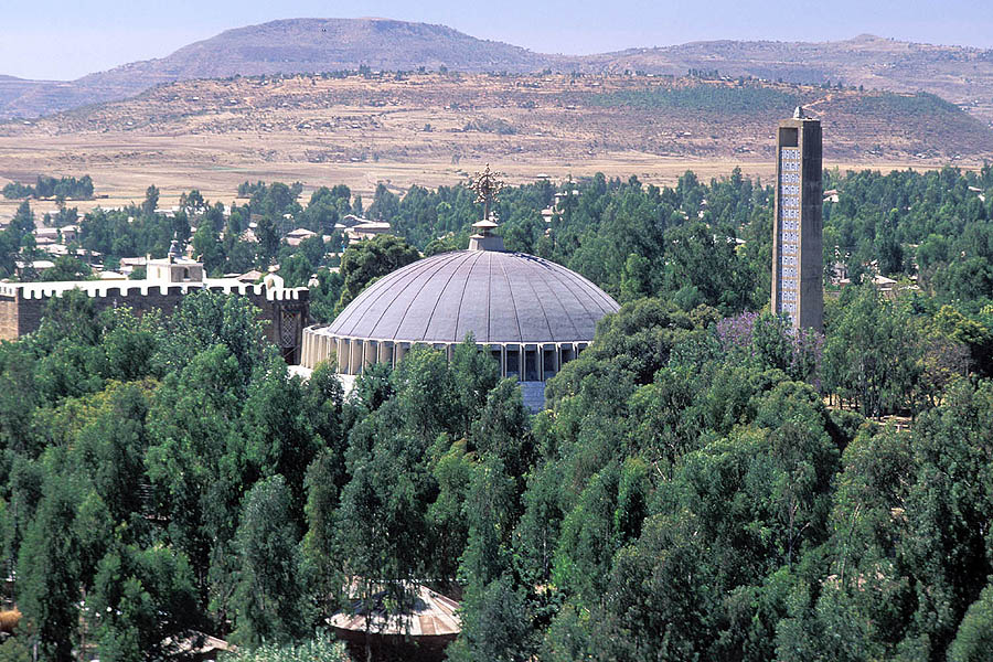 The dome and bell tower of the new Church of Our Lady Mary of Zion, built by Emperor Haile Selessie in the 1950s at Axum, Ethiopia